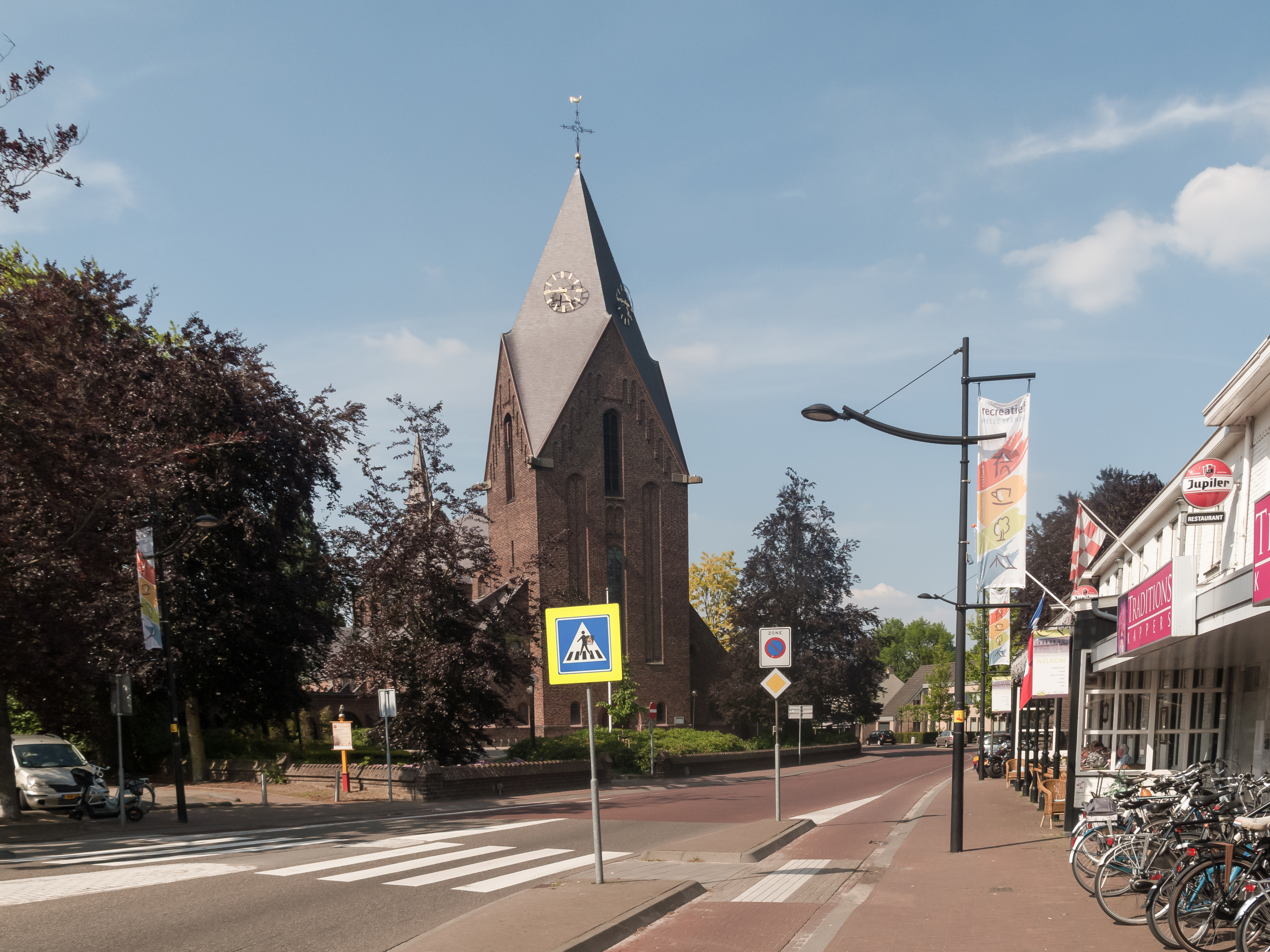 Heeze, church: de Sint Martinuskerk